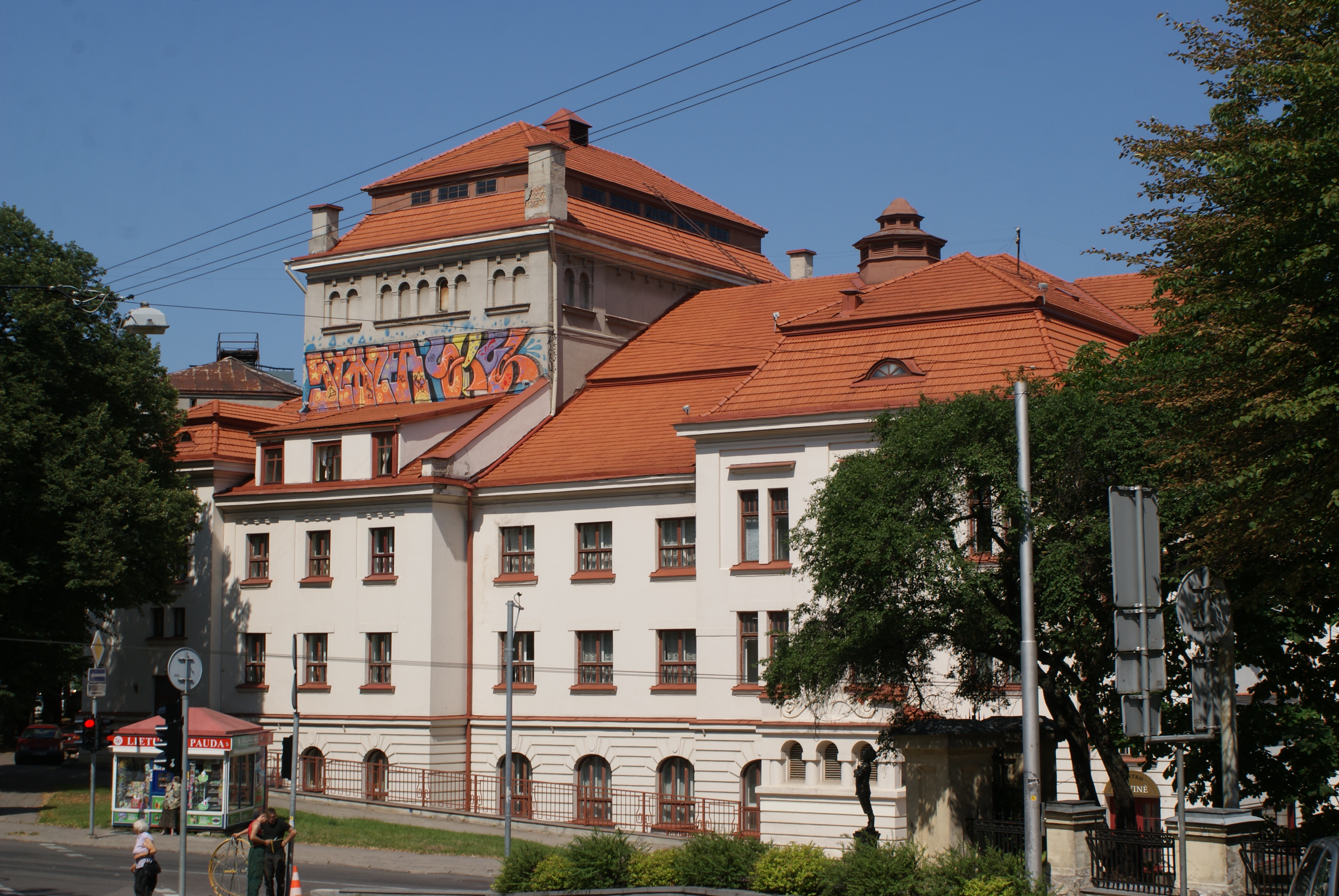 Vilnius streets